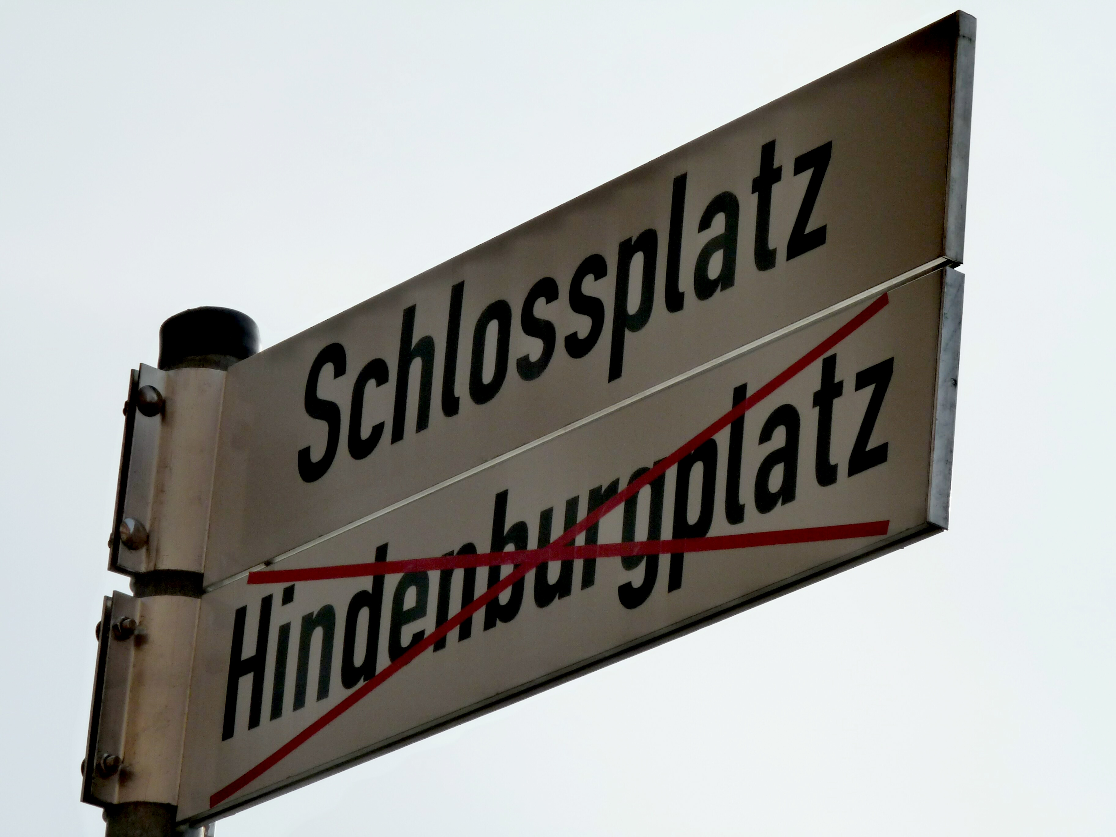 Street sign: Schlossplatz (formerly Hindenburgplatz) in Münster